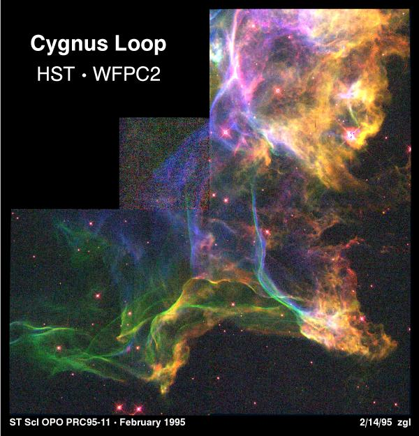 This image shows a small portion of a nebula called the "Cygnus Loop." Covering a region on the sky six times the diameter of the full Moon, the Cygnus Loop is actually the expanding blastwave from a stellar cataclysm - a supernova explosion - which occurred about 15,000 years ago. In this image the supernova blast wave, which is moving from left to right across the field of view, has recently hit a cloud of denser than average interstellar gas. This collision drives shock waves into the cloud that heats interstellar gas, causing it to glow. Just as the microscope revolutionized the study of the human body by revealing the workings of cells, the Hubble Space Telescope is offering astronomers an unprecedented look at fine structure within these shock fronts. Astronomers have been performing calculations of what should go on behind shock fronts for about the last 20 years, but detailed observations have not been possible until Hubble. This image was taken with Hubble's Wide Field and Planetary Camera 2 (WFPC2). The color is produced by composite of three different images. Blue shows emission from "doubly ionized" oxygen atoms (atoms that have had two electrons stripped away) produced by the heat behind the shock front. Red shows light given off by "singly ionized" sulfur atoms (sulfur atoms that are missing a single electron). This sulfur emission arises well behind the shock front, in gas that has had a chance to cool since the passage of the shock. Green shows light emitted by hydrogen atoms. Much of the hydrogen emission comes from an extremely thin zone (only several times the distance between the Sun and Earth) immediately behind the shock front itself. These thin regions appear as sharp, green, filaments in the image. This supernova remnant lies 2,500 light-years away in the constellation Cygnus the Swan.